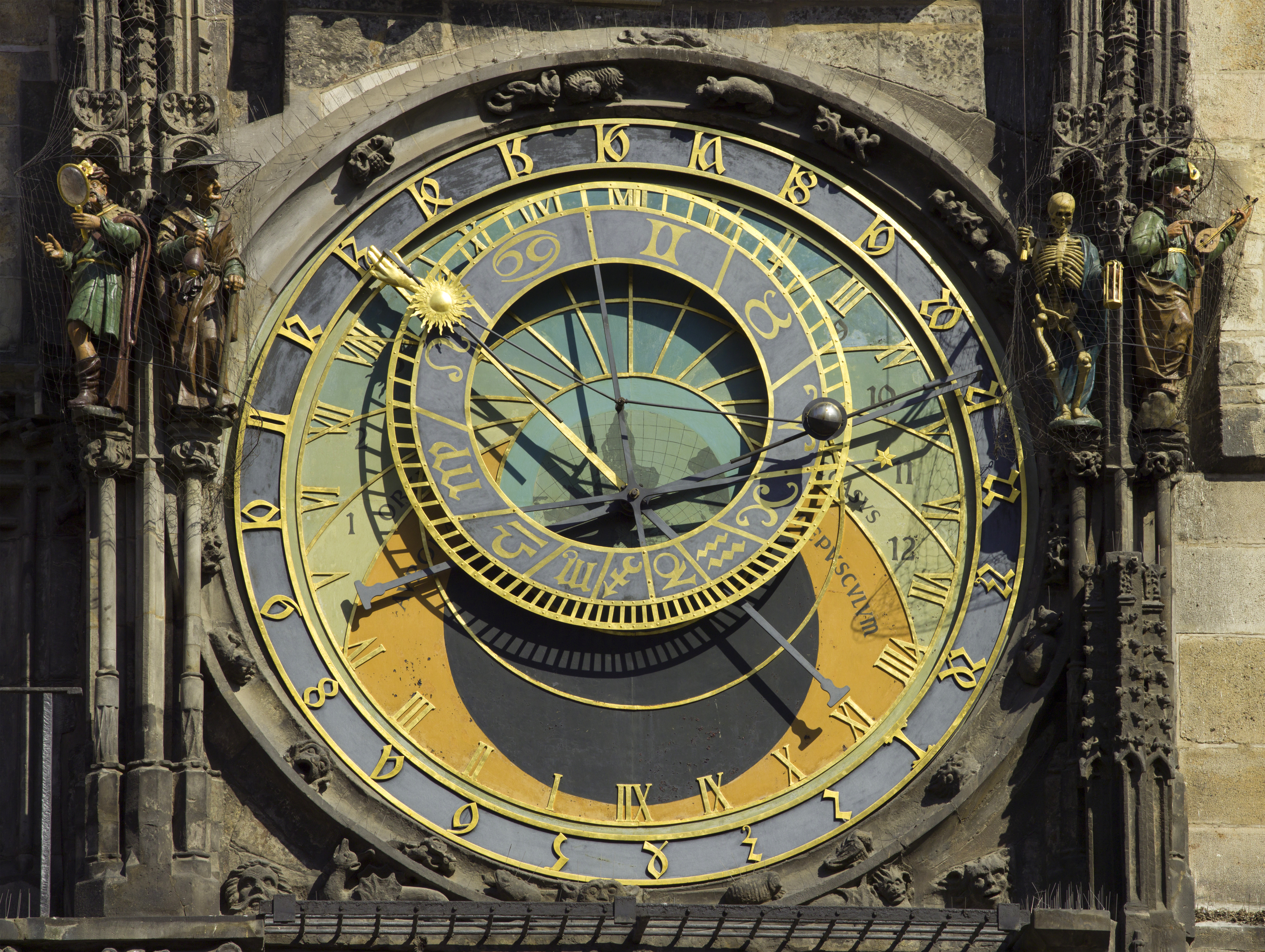 The Prague astronomical clock (in Old Town Square) was installed in 1410 by clock-makers Mikuláš of Kadaň and Jan Šindel, and is the oldest functioning Astronomical clock in the world.